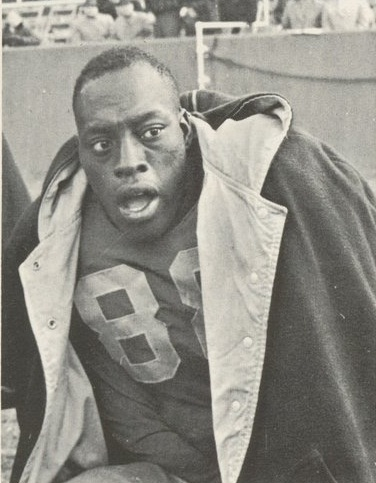 Pitt Panthers football player Bobby Grier